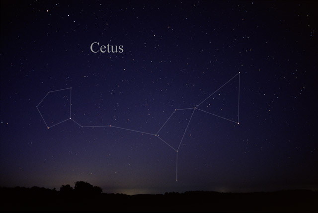 Photography of the constellation Cetus, the whale